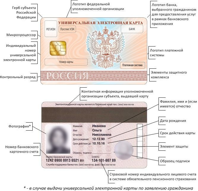 Description of the Universal Electronic Card, the Russian identity electronic card issued to Russian citizens since 2013